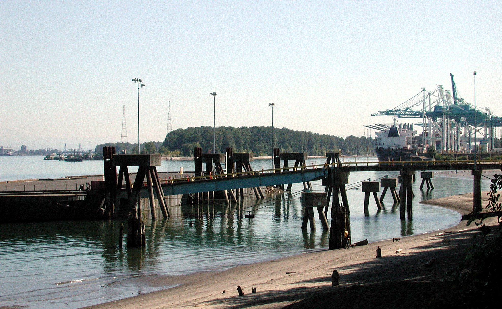 View upstream on the Columbia River from Kelley Point Park in Portland, Oregon. The Port of Portland's Marine Terminal 6 is on the right. The river wraps around Hayden Island, in the center of the image.